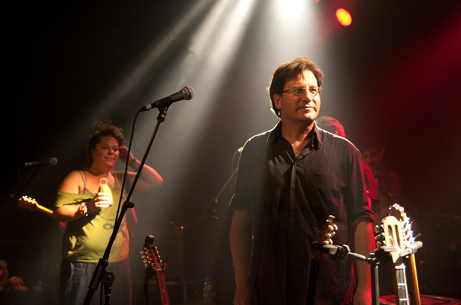 Thanasis Papakonstantinou performing in October 2012.